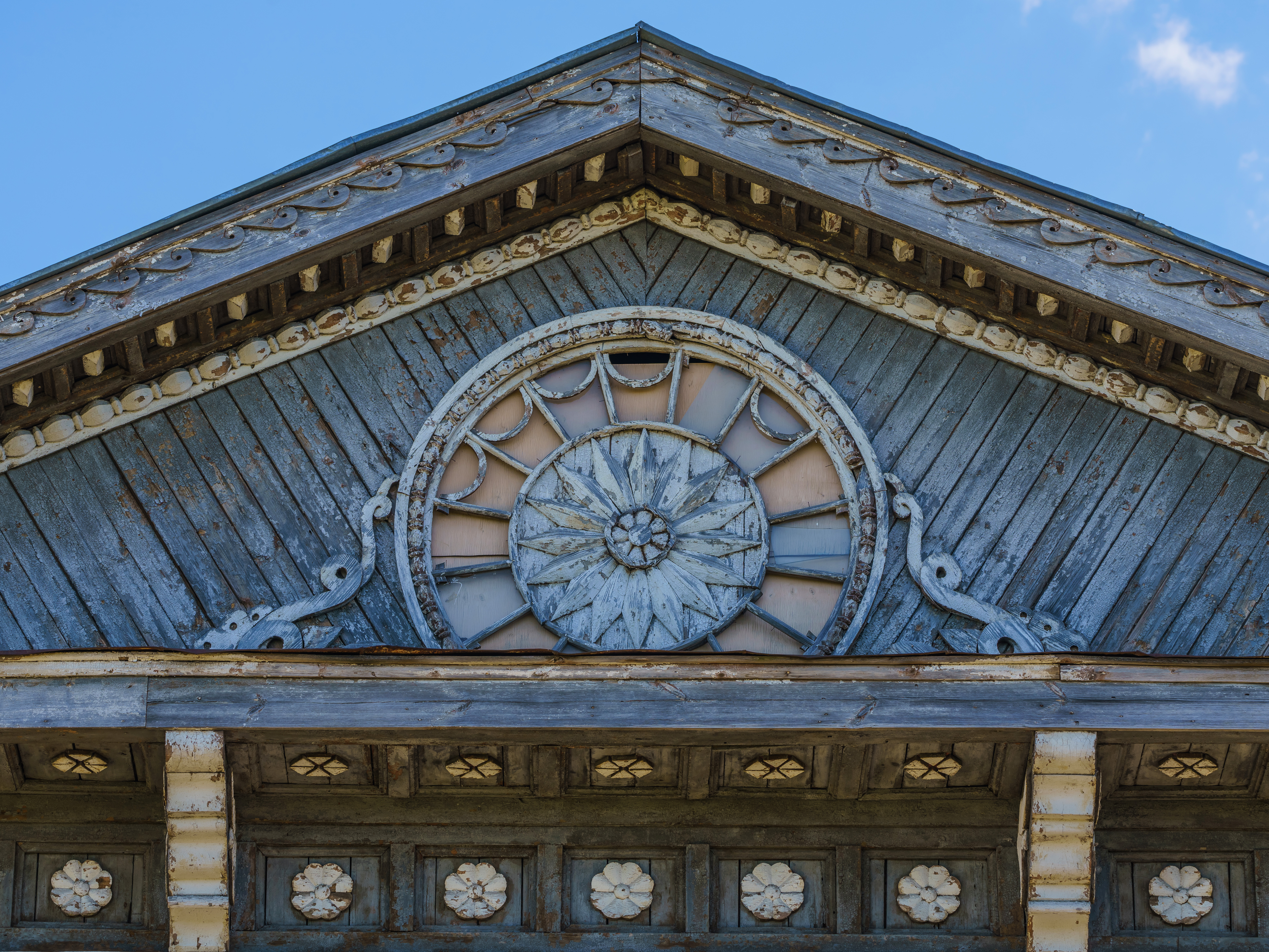 Building at Bakanova Street, 19 (House of Culture) in Palekh, Ivanovo Oblast, Russia.